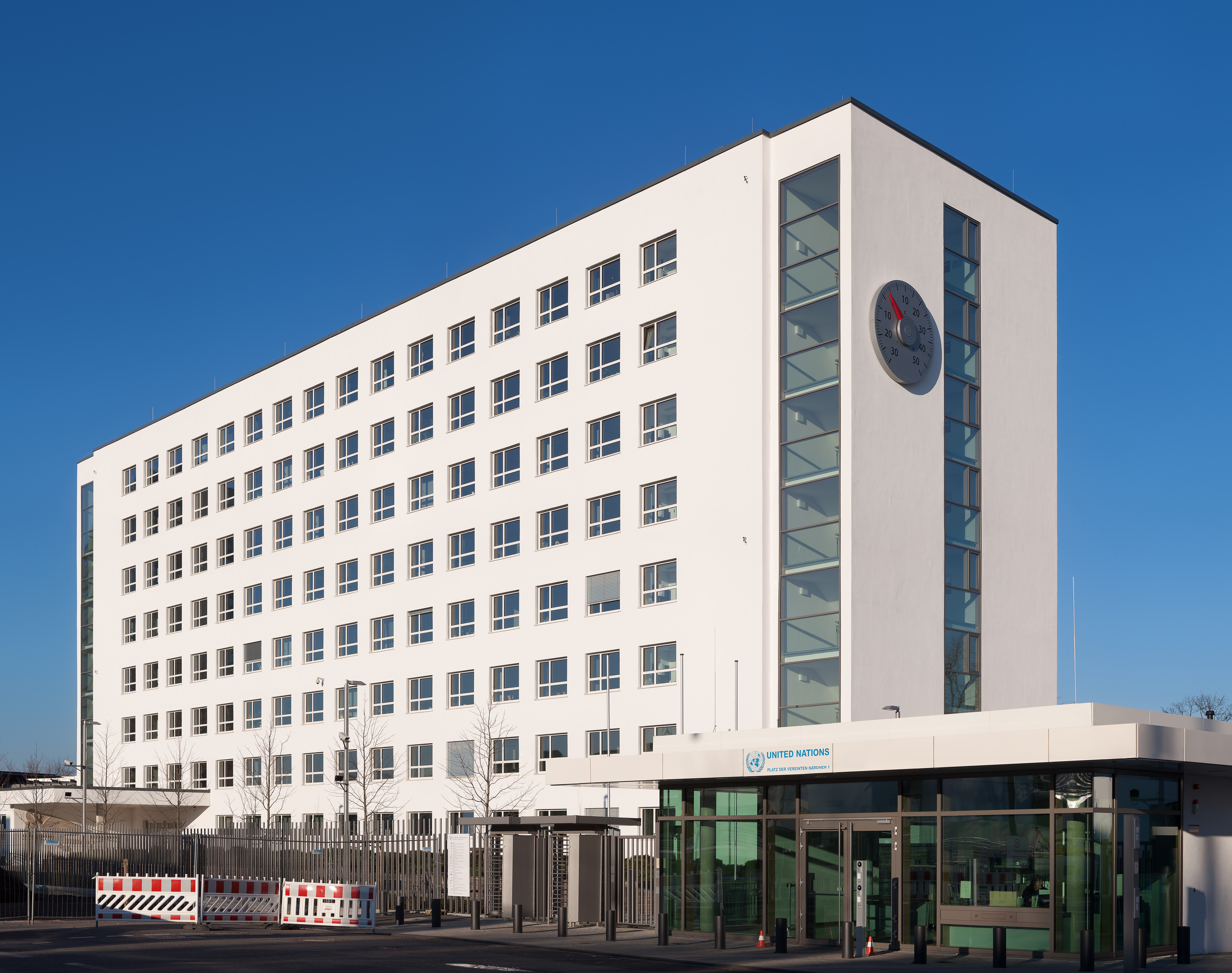 Old assembly building in Bonn, Seat of the UNFCCC secretariat.